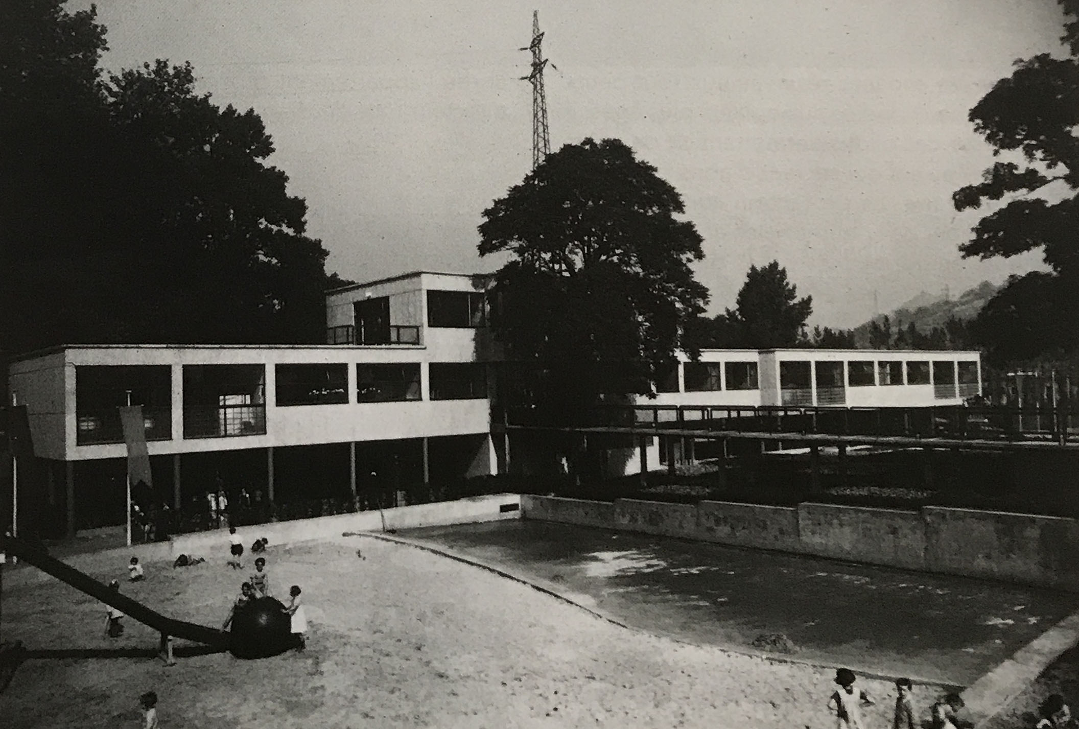 Building built by the Liege architect group called Equerre, built for the international exhibition of 1939